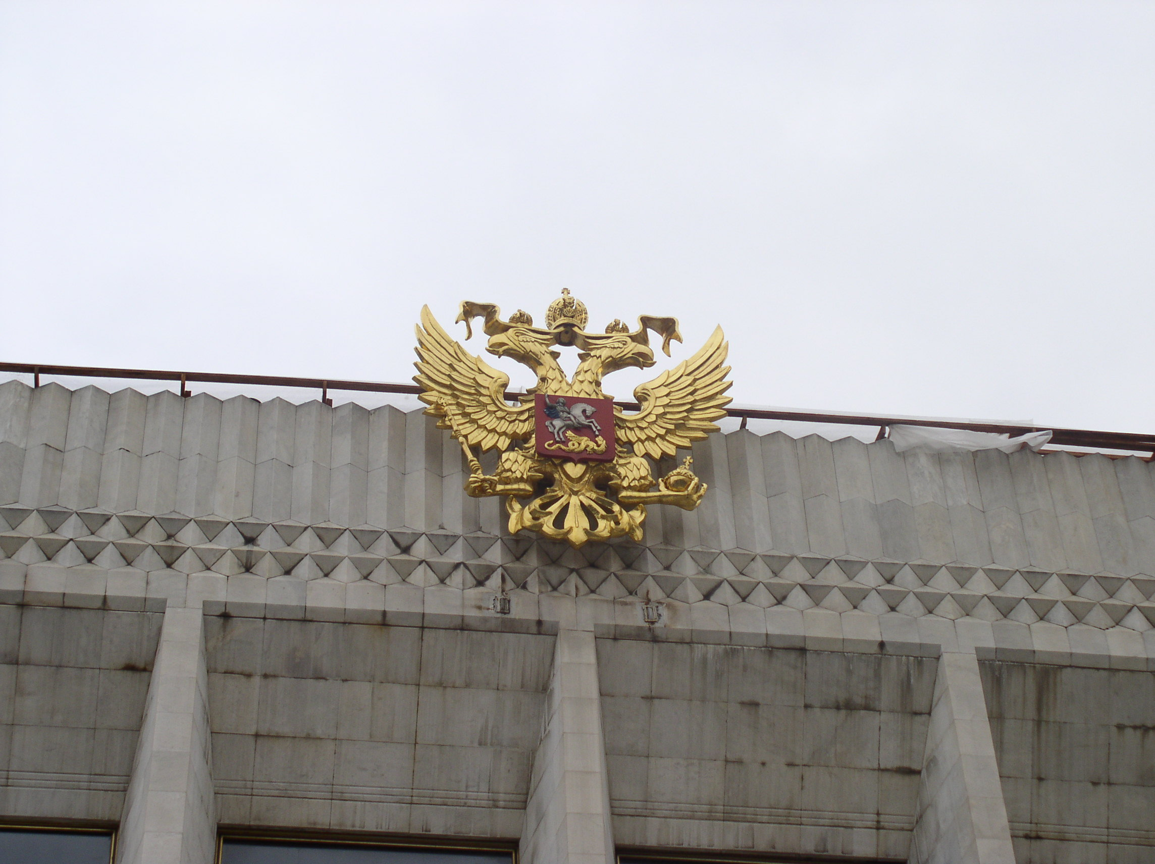 State Kremlin Palace. Moscow, Russia.